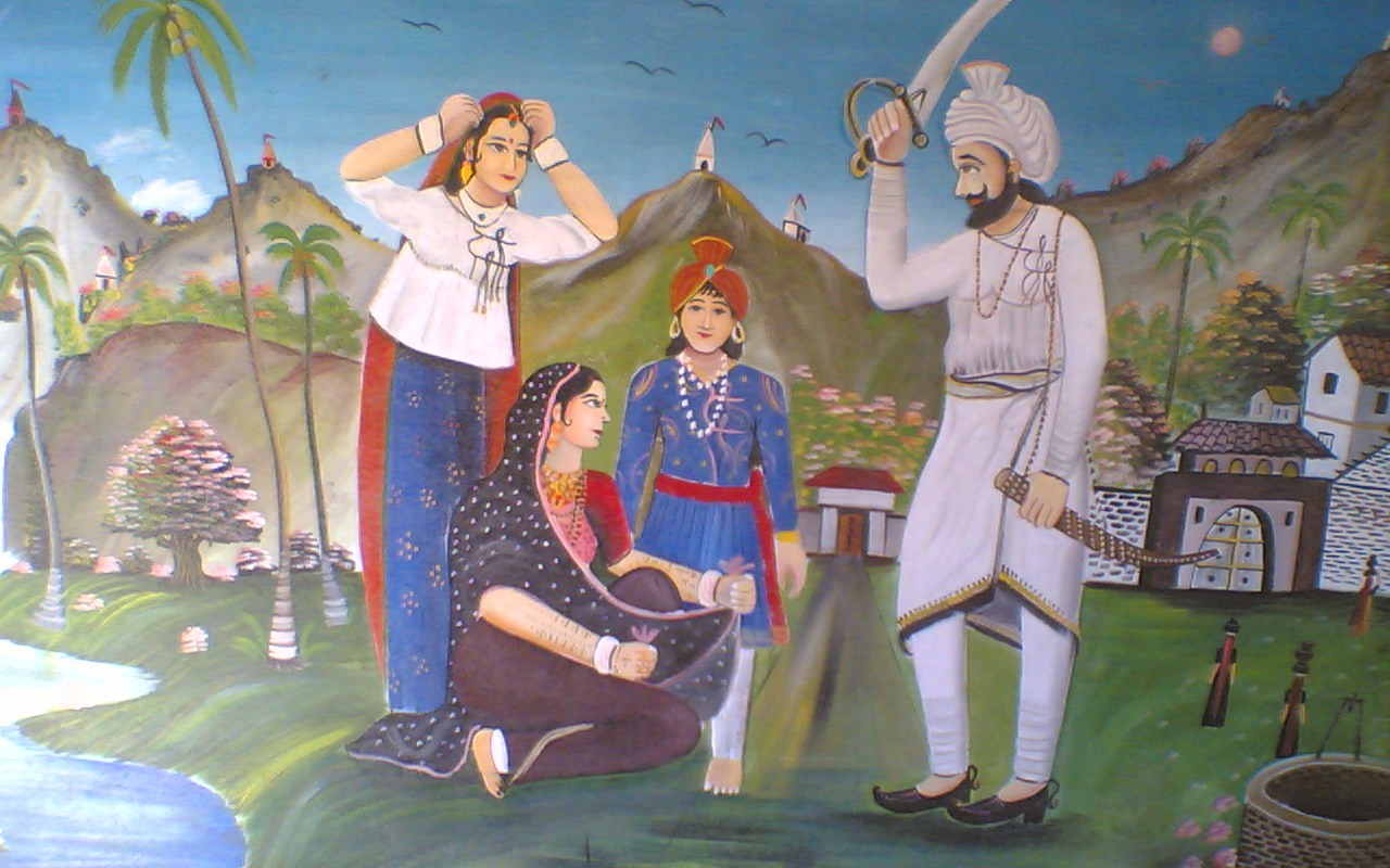 Incident of killing his own son by Devat Bodar in front of his wife Sonal, and daughter Jahal